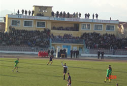 A photo of Loro Borici Stadium, Shkoder, during a match [season 2005/2006].